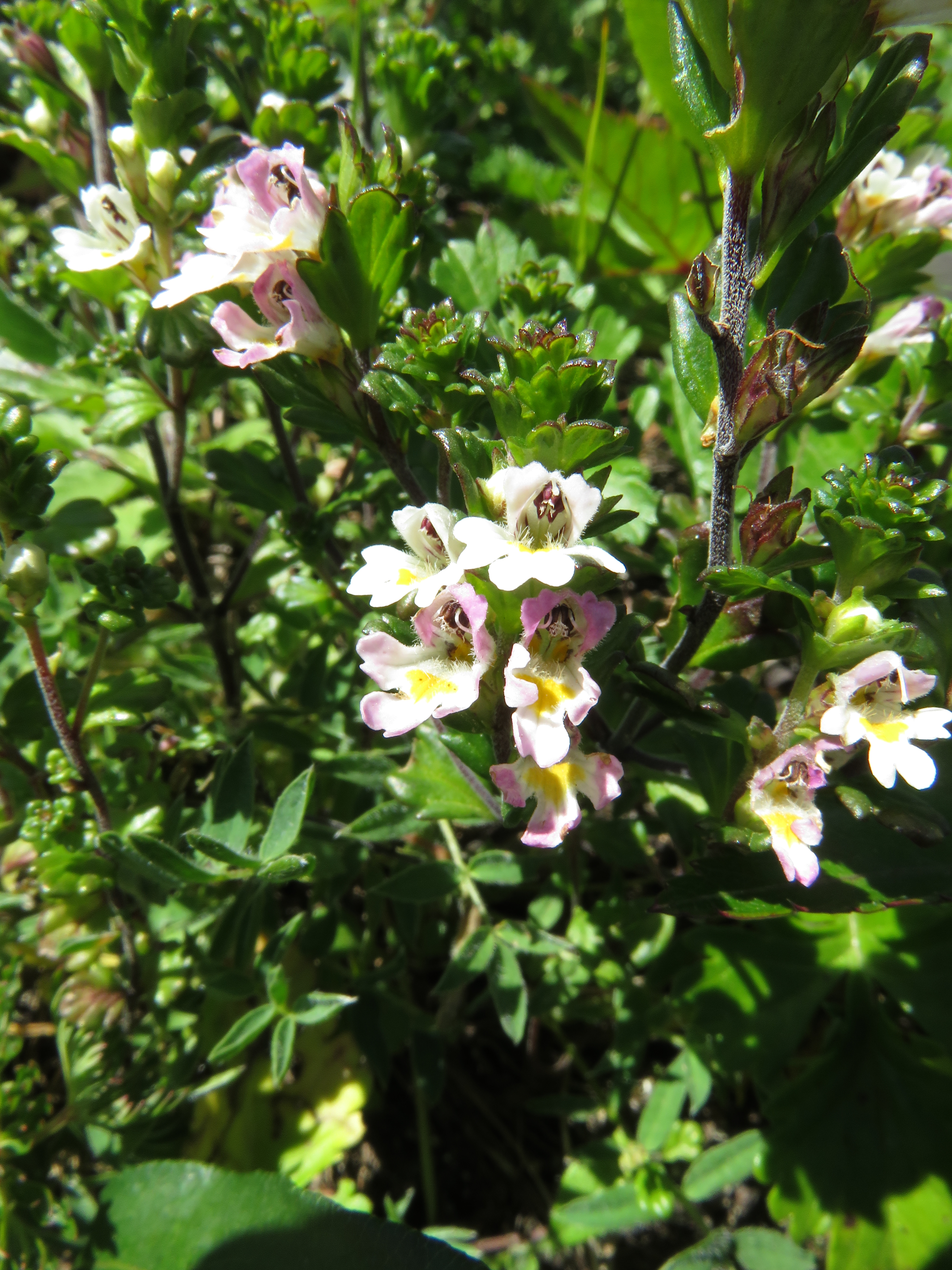 Euphrasia insignis subsp. insignis var. nummularia, Mount Iide, Fukushima pref., Japan